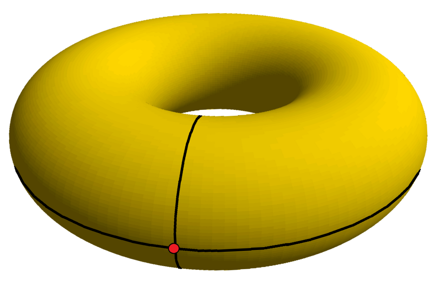 Torohedron {4,4}_1,0, 1 vertex, 2 monogonal edges, and 1 square face